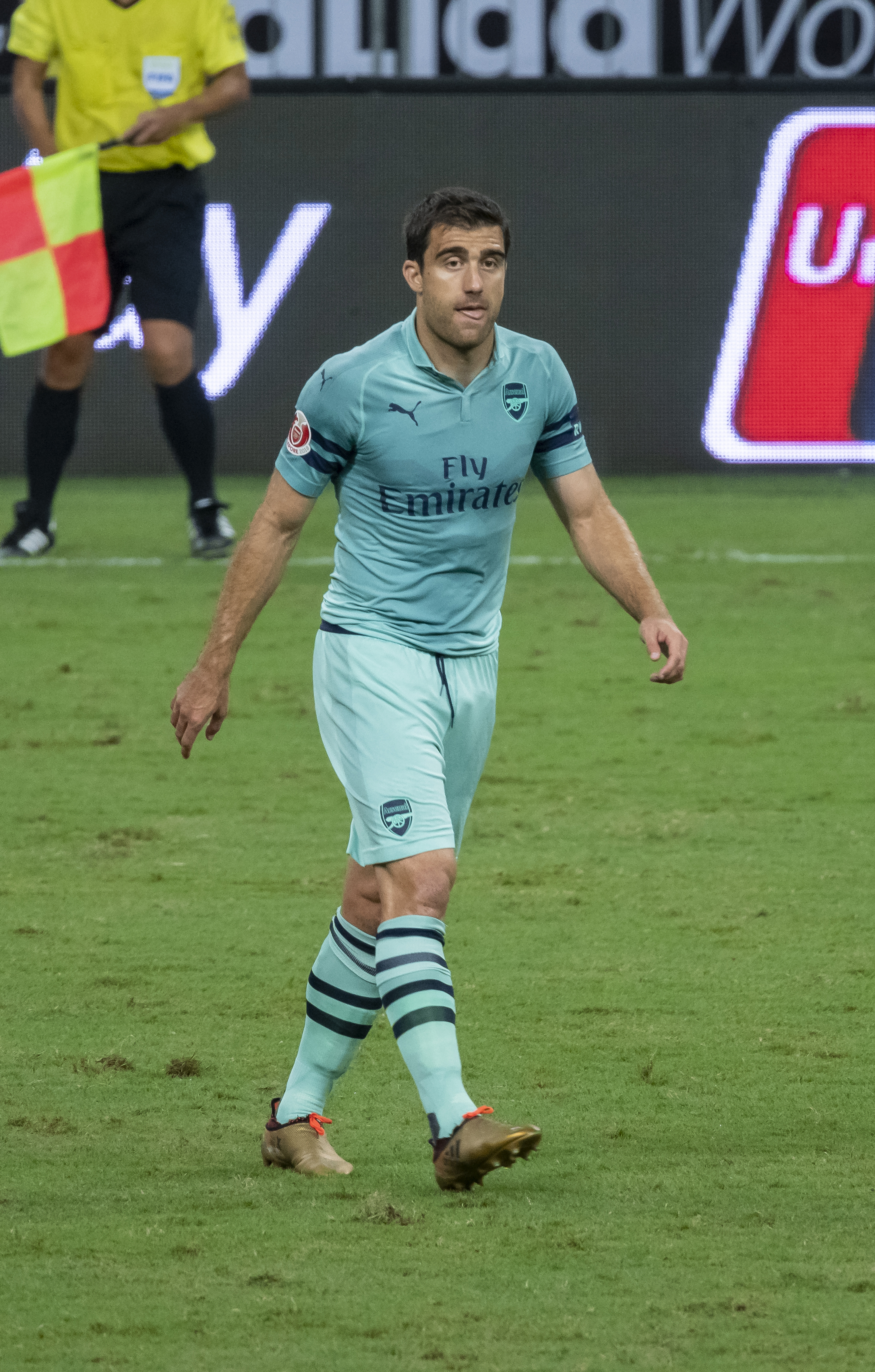 Sokratis Papastathopoulos Arsenal v PSH International Champions Cup 2018 Singapore National Stadium